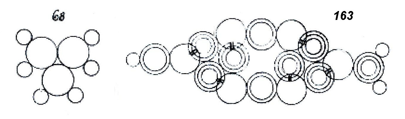 Figures extracted from Chemische Studien (1861)